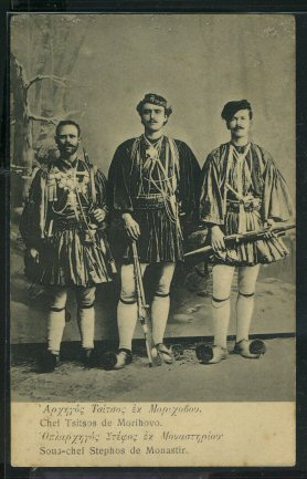 Portrait of greek andart capitan Tsitsos from Marihovo (region in Bitola, todays FYRO Macedonia)